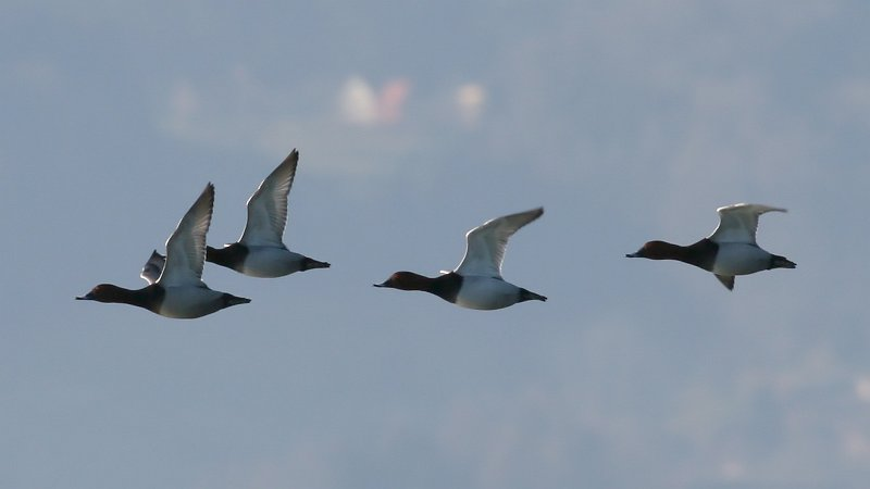 Pochard (Aythya ferina) This image was created by Ken Billington. If you are interested in a high resolution copy of this image, please contact the author Ken Billington in order to negotiate conditions of use. Do not copy this image illegally by ignoring the terms of the license below, as it is not in the public domain. If you would like special permission to use, license, or purchase the image please contact me to negotiate terms. More free images can be found on Ken Billington's Bird & Wildlife Photography.